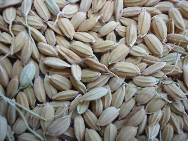 Unhulled (or unhusked) rice - a variety of Japanese short-grain rice "Hinohikari".